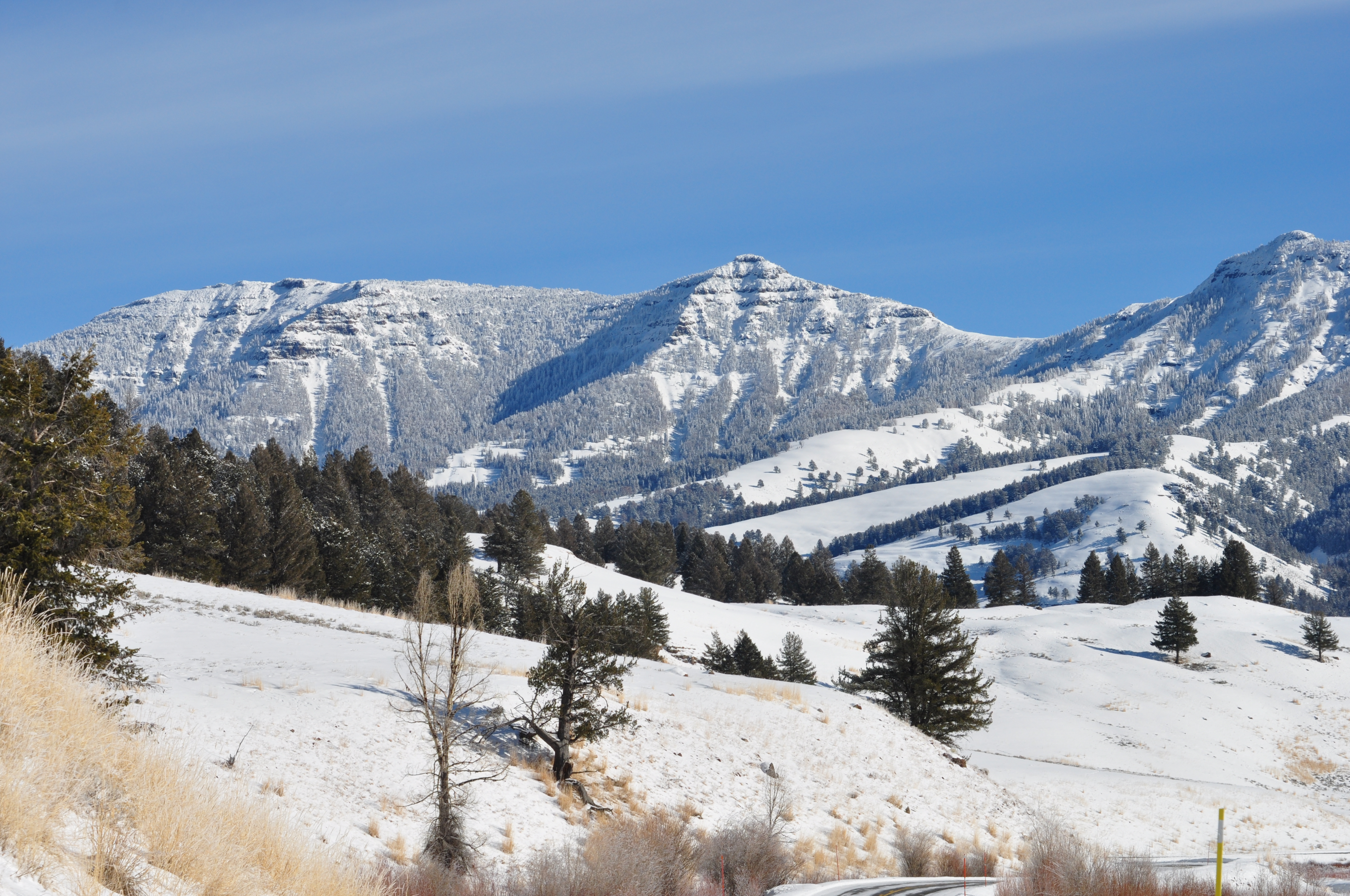 The Thunderer, Yellowstone National Park, Wyoming, 2010 (Mount Norris at right)